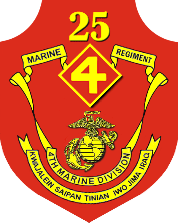 United States Marine Corps 4th Marine Division, 25th Marine Regiment insignia, . Modified version of the image found on the unit's website. Made with Photoshop.